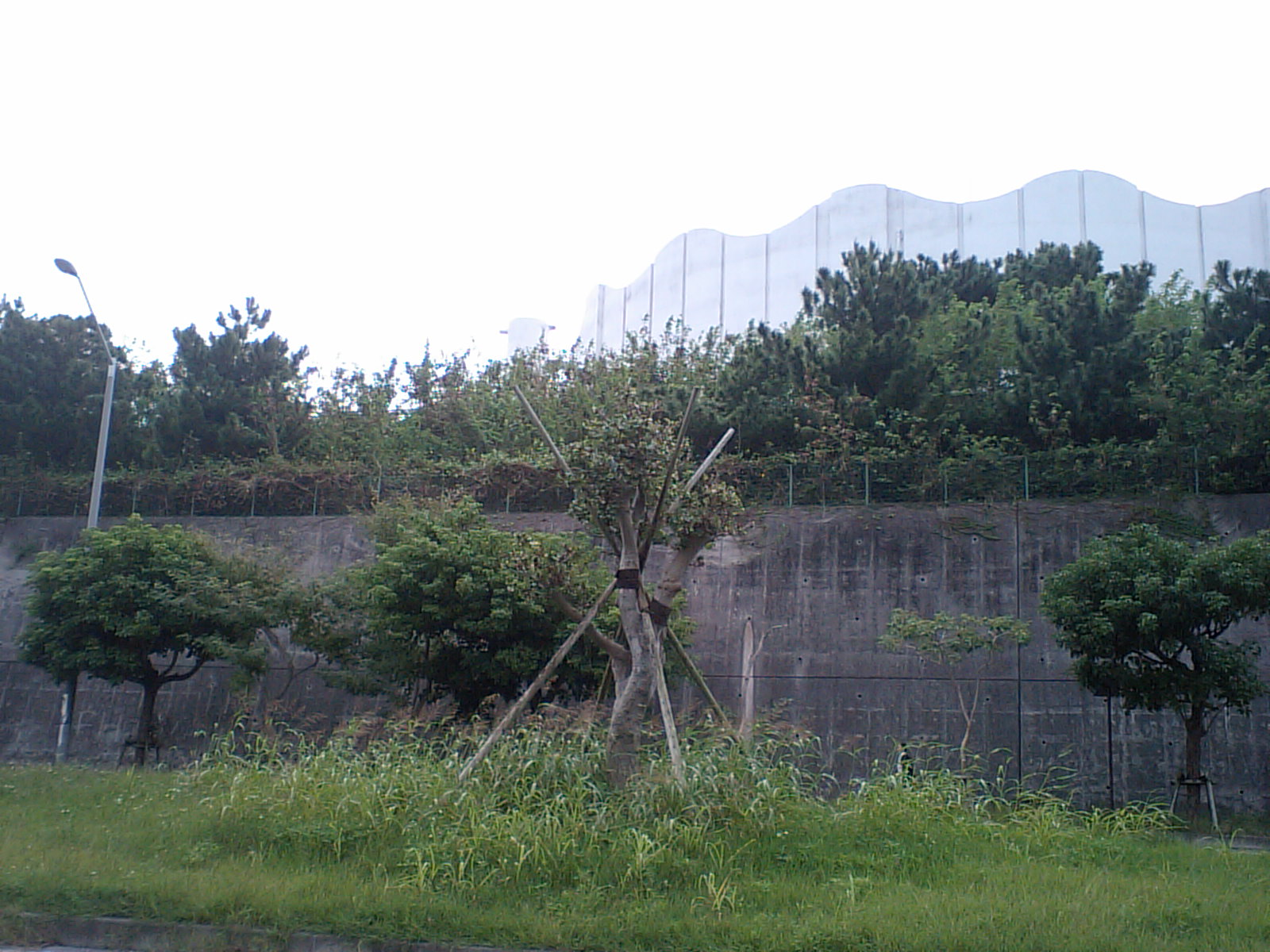 The Sugar Loaf Hill on 2010.11 from north